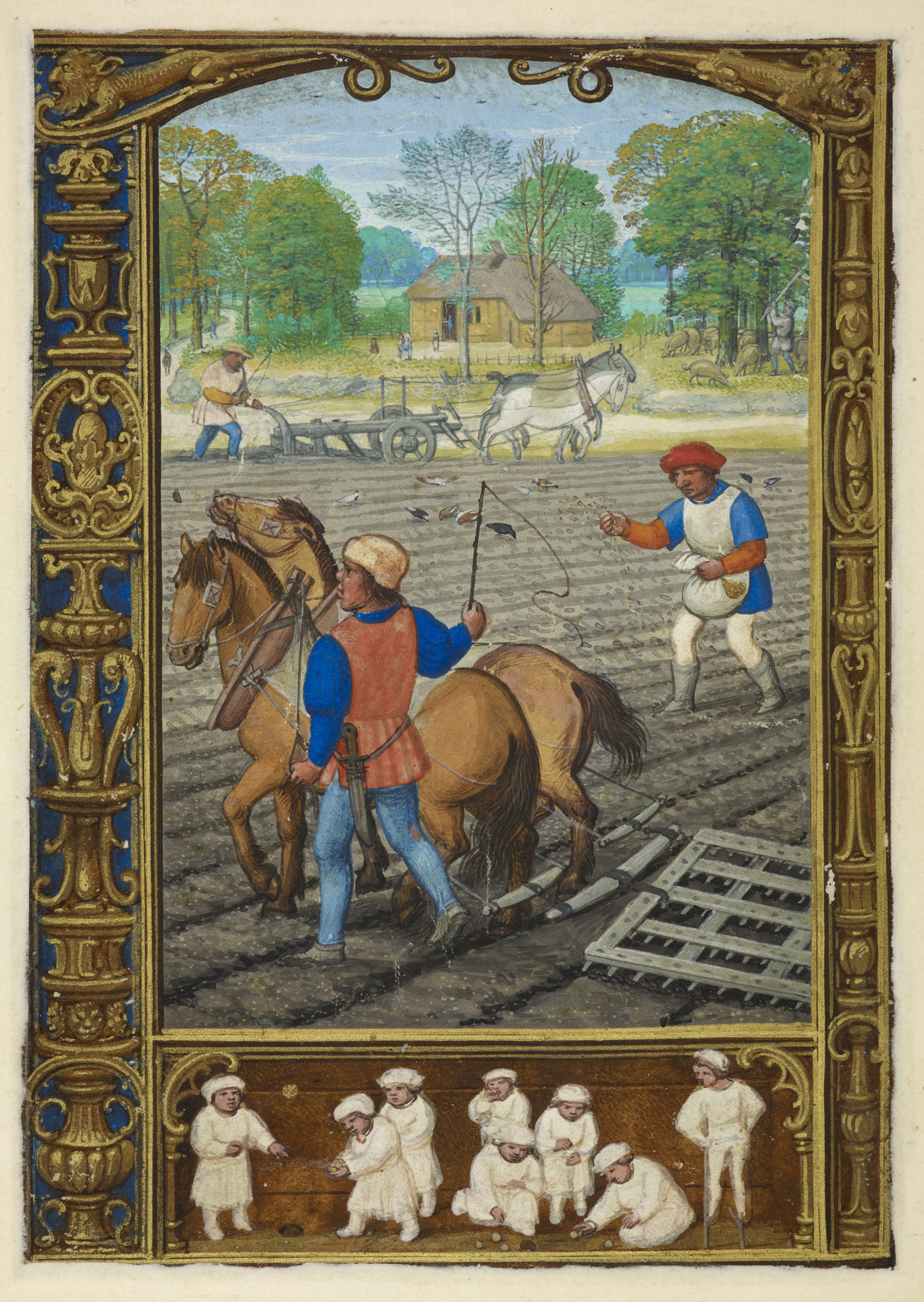 Calendar scene for September: Ploughing, sowing and harrowing. (Below): playing with marbles and stilts.